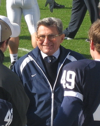 Penn State Nittany Lions head coach Joe Paterno celebrates with his players after his 400th win in 2010